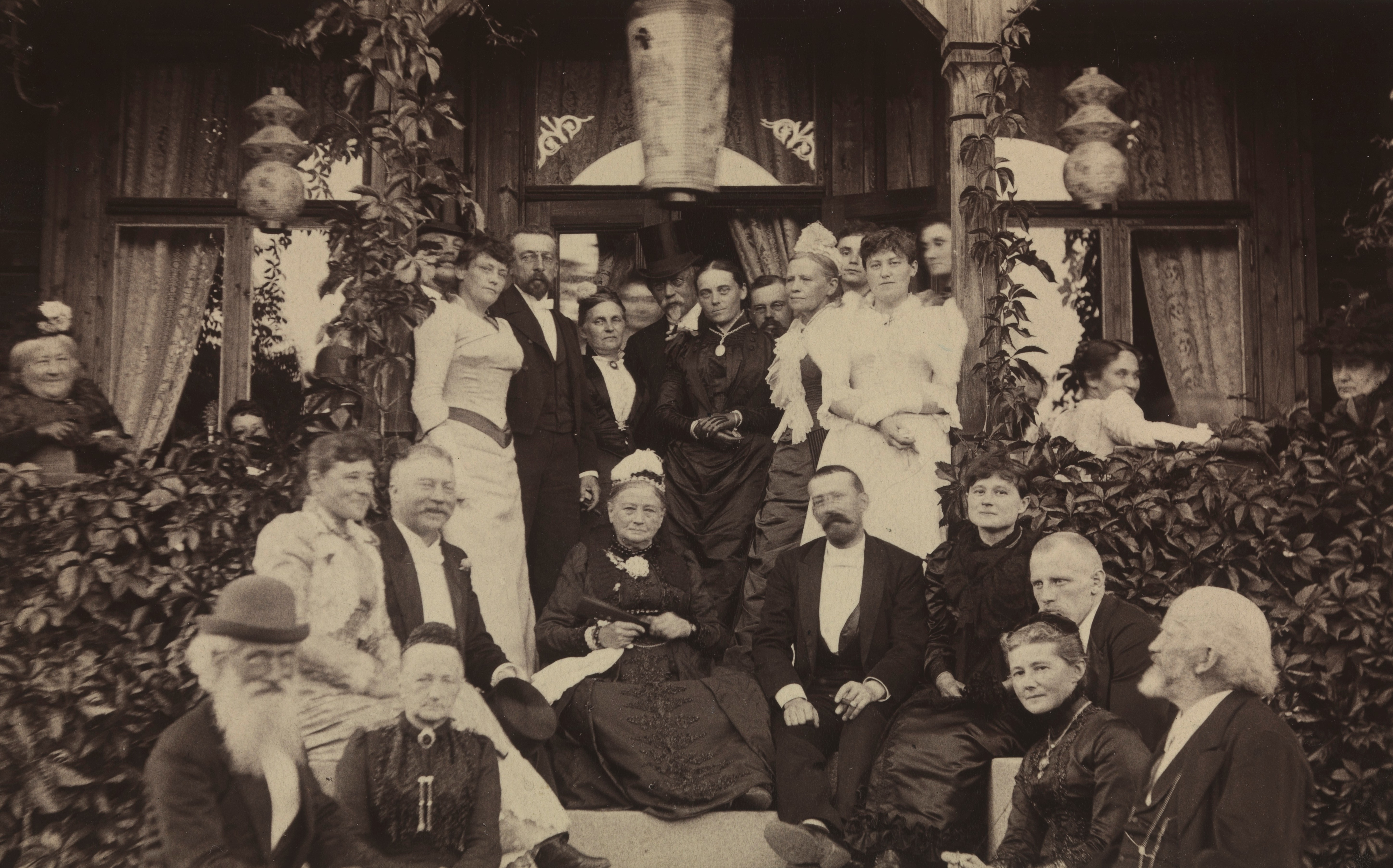 Group picture of the Sars family and friends on a veranda. Sitting from the left: Ernst Sars, Mally Lammers, Thorvald Lammers, (in the middle) Maren Sars, (Hjalmar Welhaven ), Eva Nansen, Fridtjof Nansen.